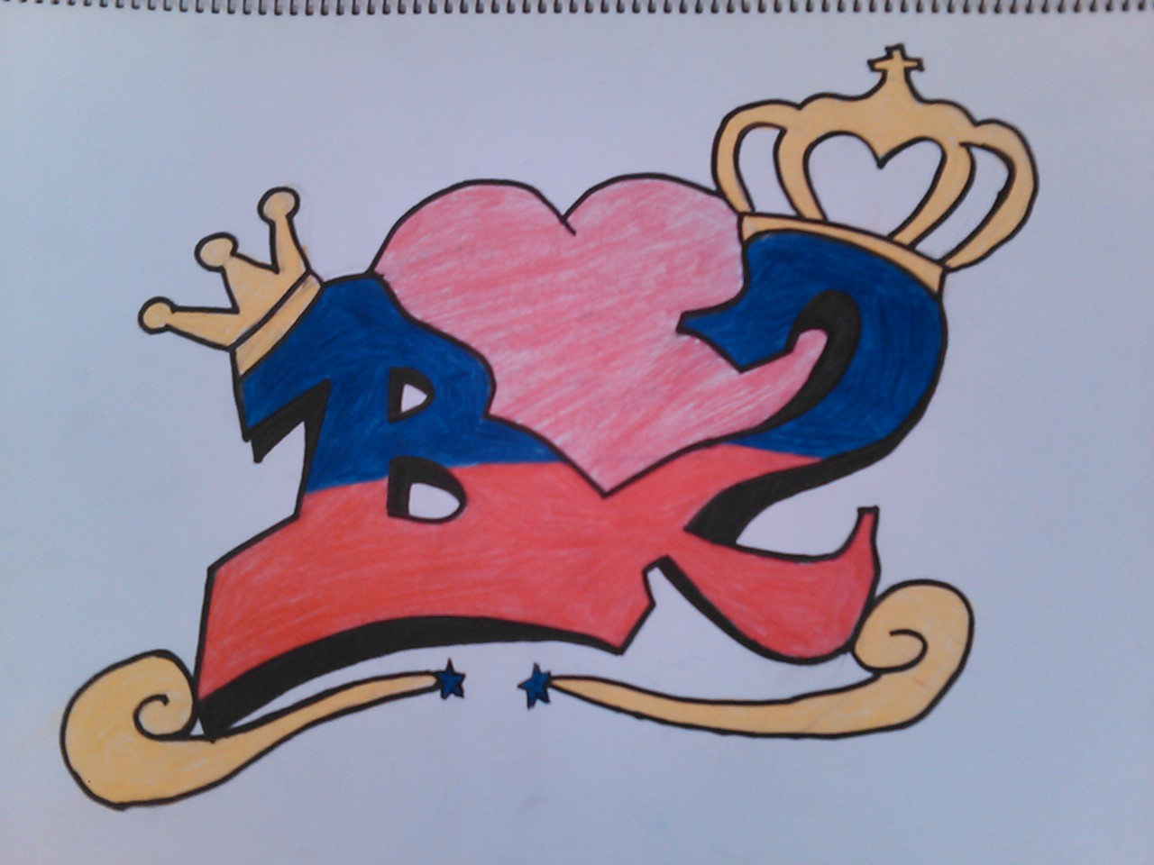 Graffiti